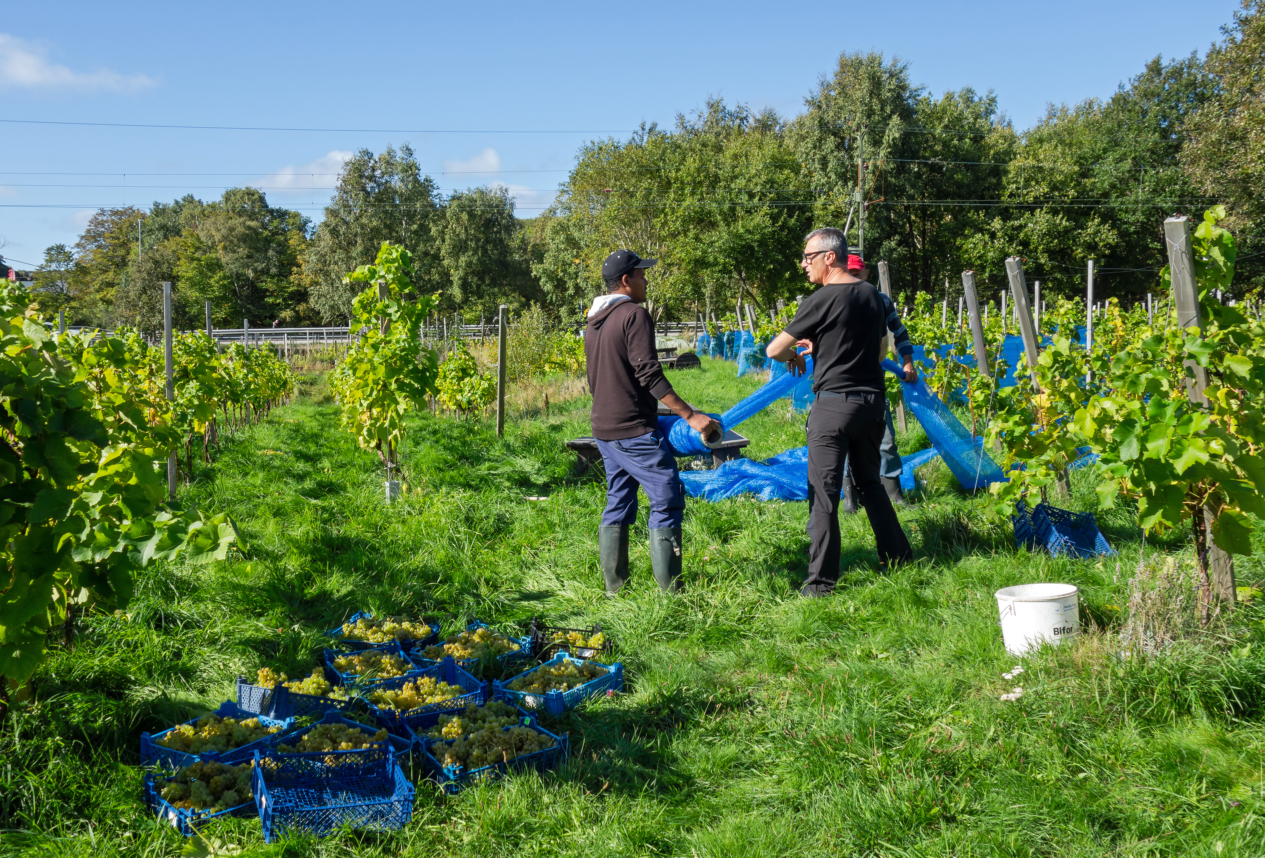 Joan Ramon Mañé Figueras (wearing glasses) from Spain instructing two grape pickers during grape harvest in Chateaux Luna vineyard, Lysekil, Sweden.